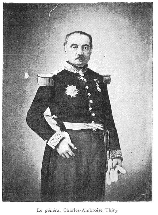 Né le 9/12/1791 et mort en septembre 1868